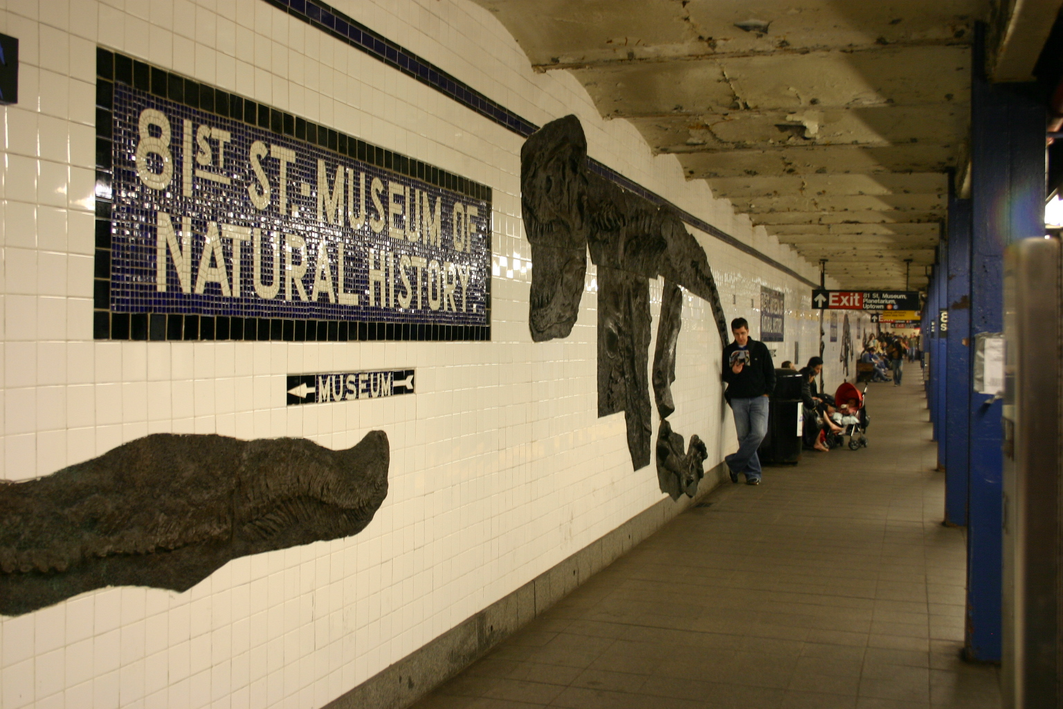 Visit my blog at for science news and speculation.